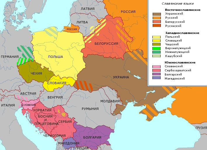 Slavic languages